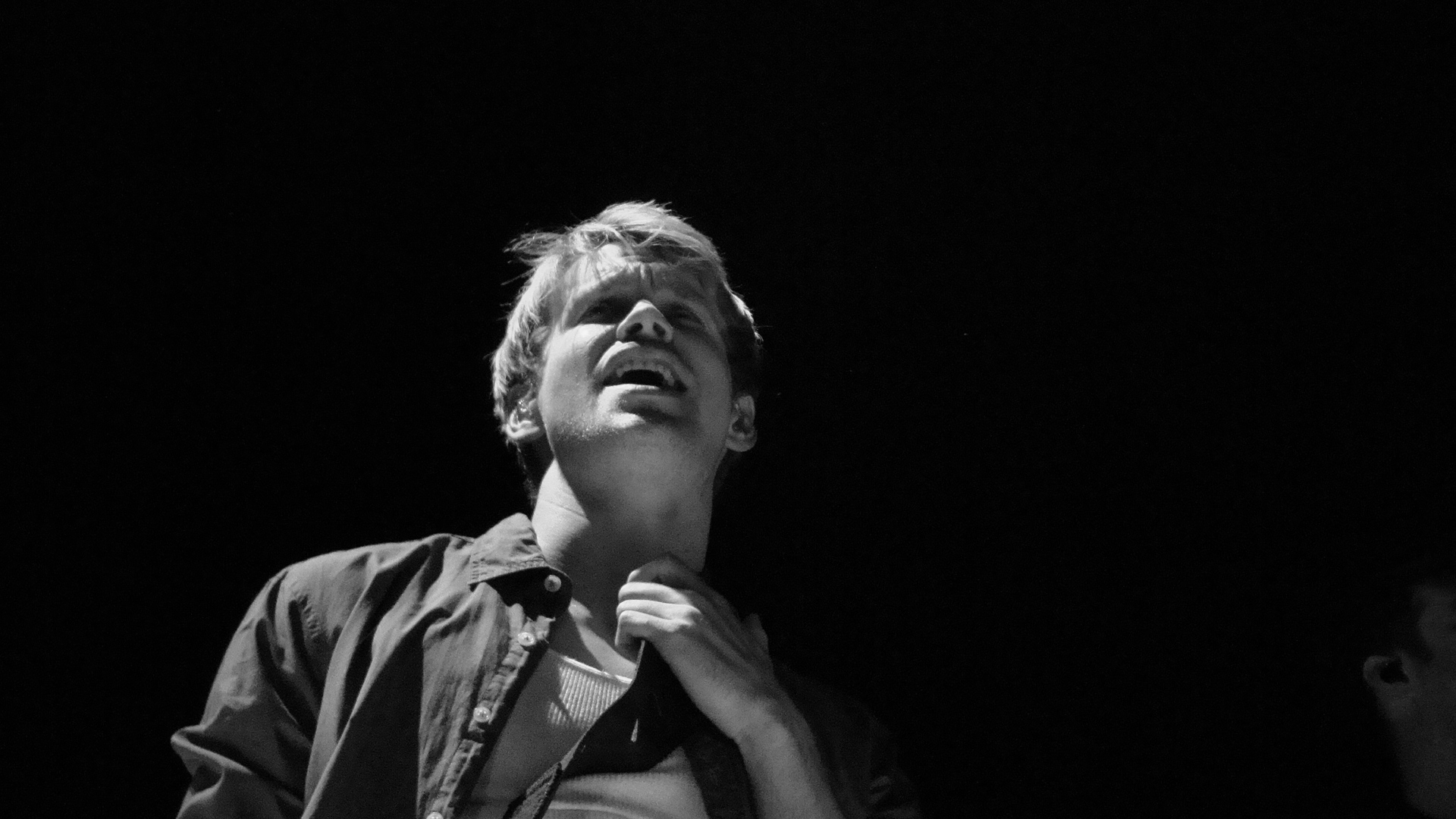 Fat Bottomed Girls